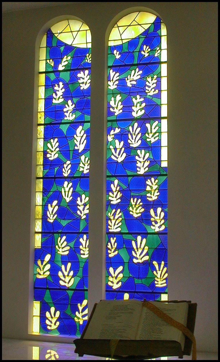 Matisse, windows in Chapelle du Rosaire (Vence)